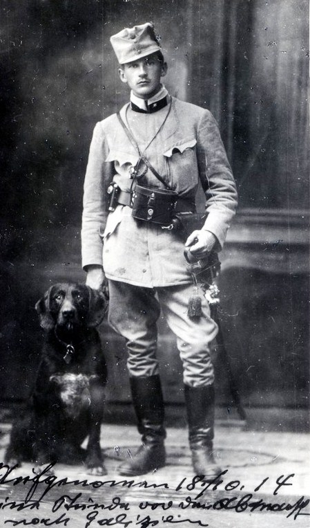 Franc Korent, 1st Lt of the 4th troop of the 17th Infantry Regiment